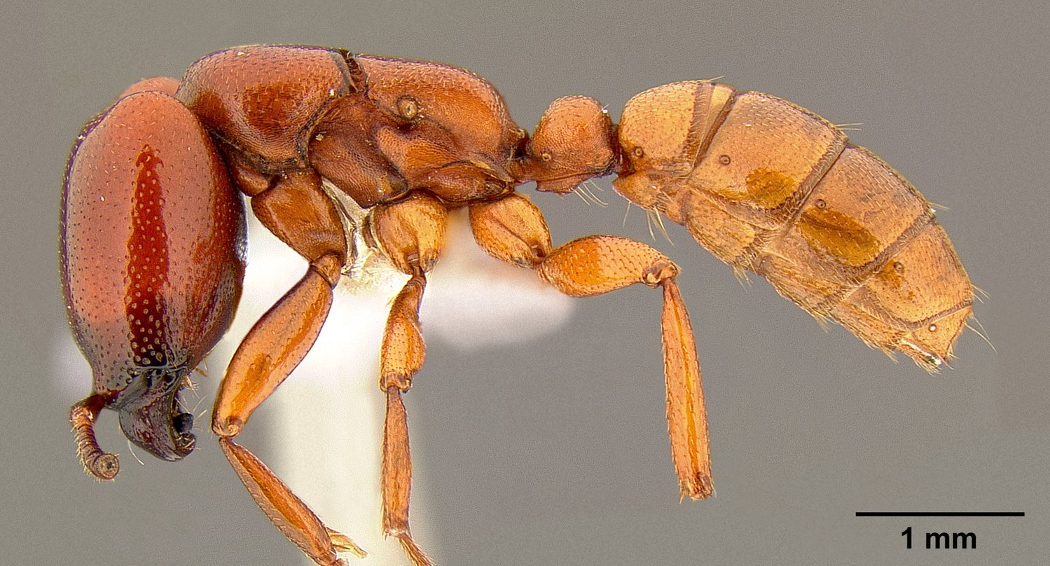 Profile view of ant Dorylus helvolus specimen casent0106079.